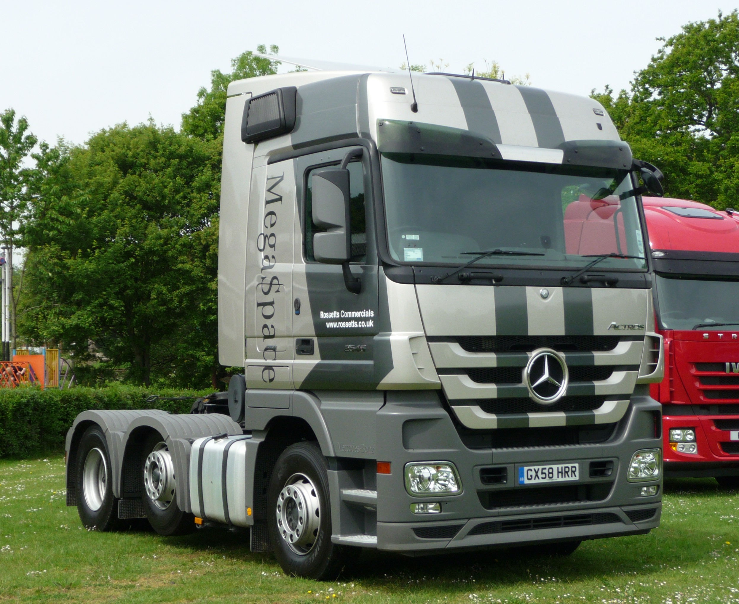 A Rossetts Commercials Mercedes-Benz Actros cab, registered GX58 HRR, seen at the Bustival event, Havenstreet, Isle of Wight, celebrating the 80th anniversary of bus company Southern Vectis.